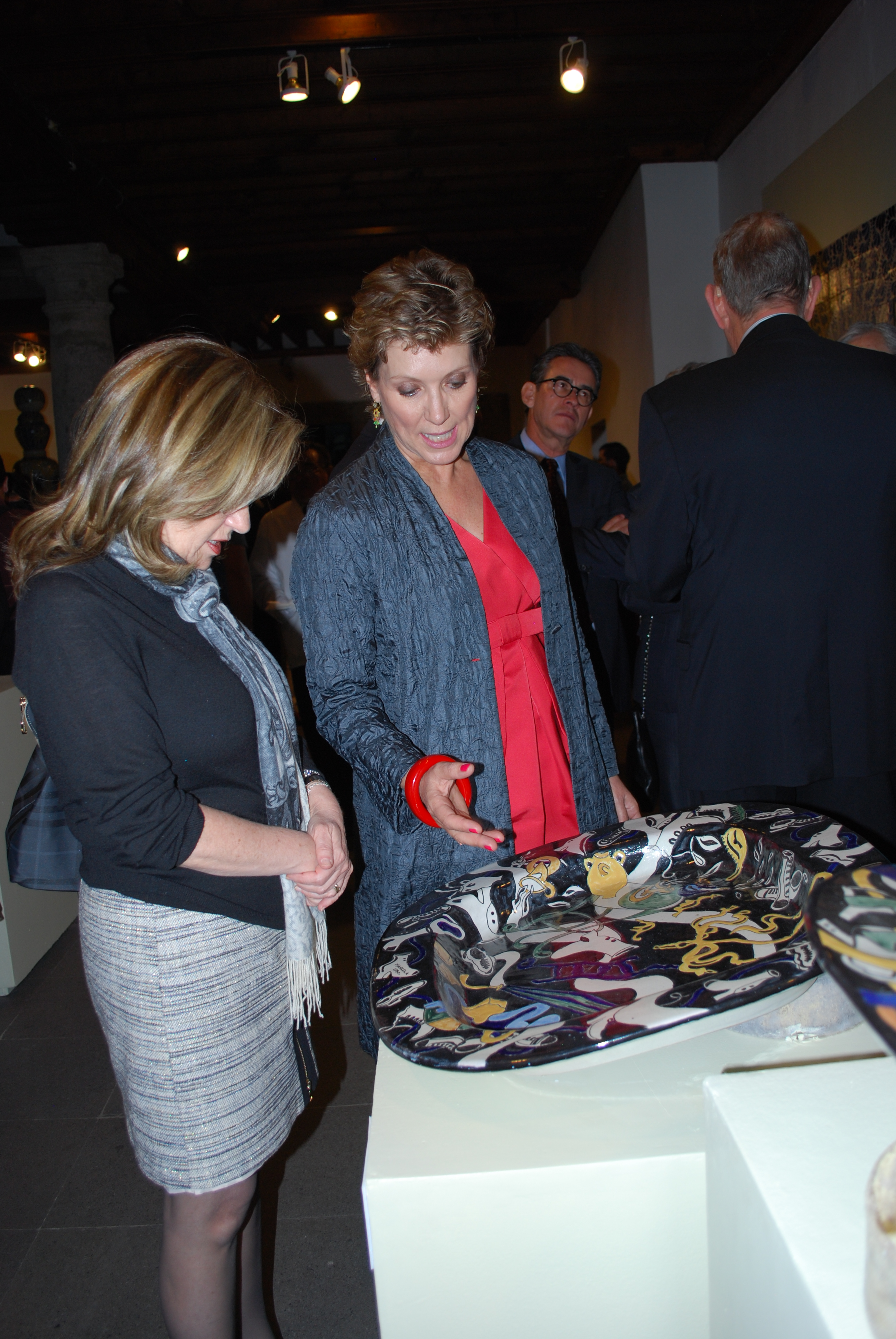 Artist Marcela Lobo demonstrating her piece at the opening of El cinco de mayo de 1862. Uriarte Talavera Contemporánea